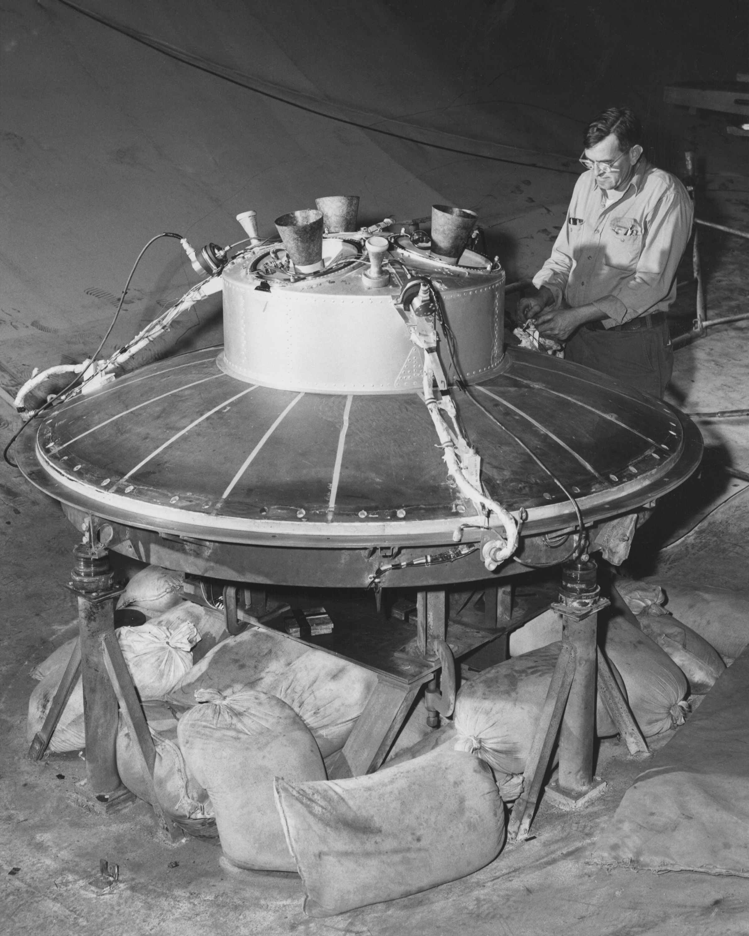 The Retro and Posigrade Package for the Mercury spacecraft. This was used to de-orbit the spacecraft at the end of mission.